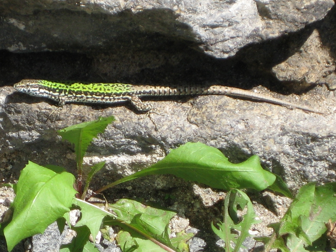 Wall lizard in Passau